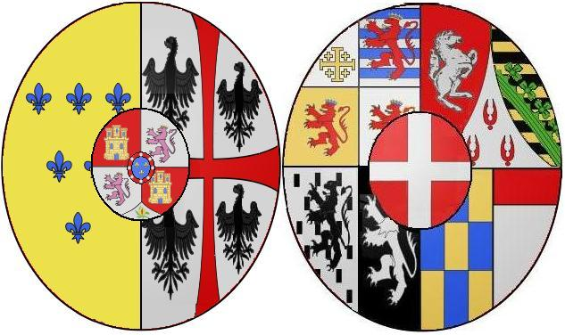 Arms of Maria Teresa of Savoy (1803-1879), Duchess of Parma